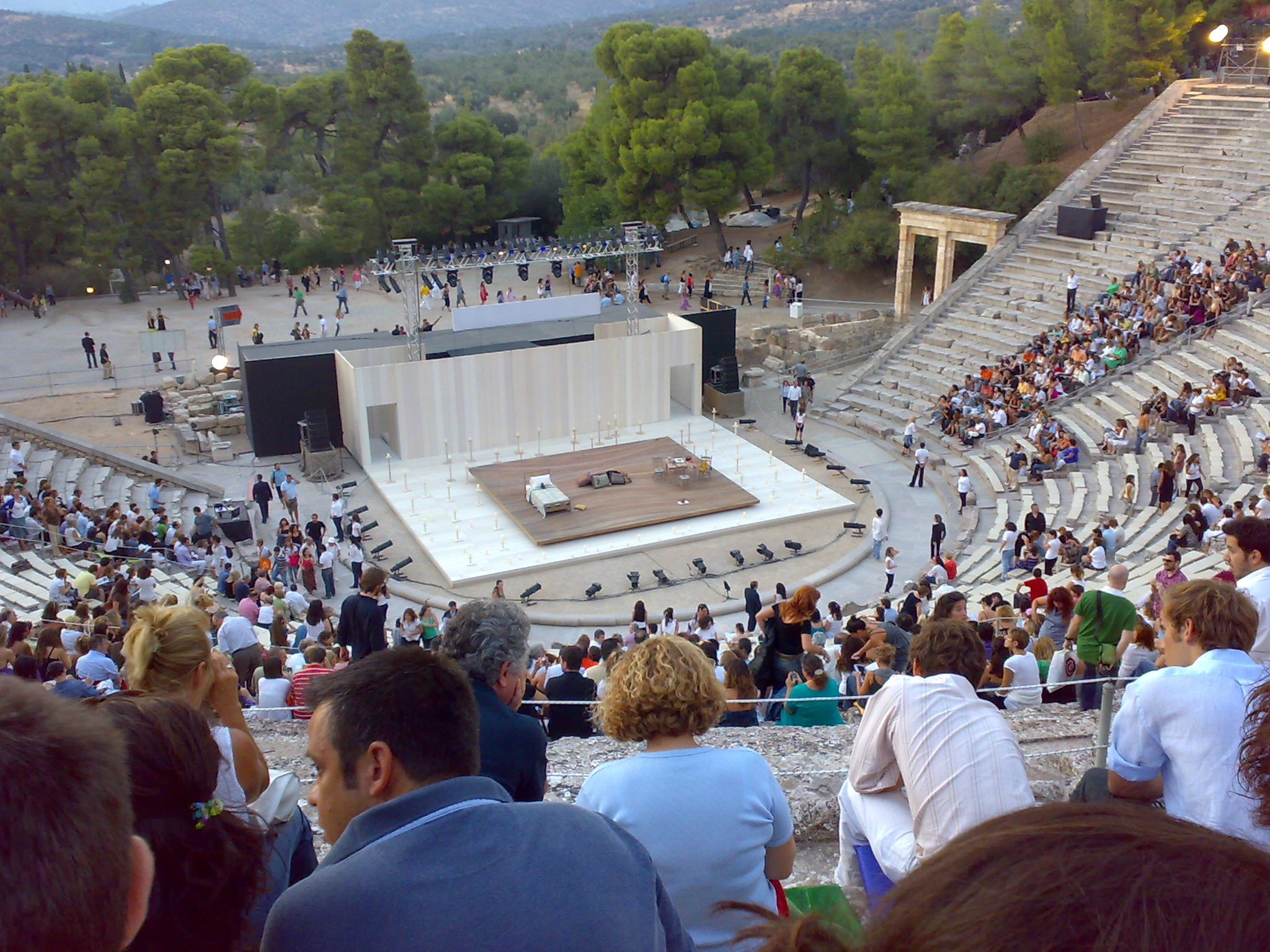 The set of The Winter's Tale production by Sam Mendes' Bridge Project, in the Epidaurus theatre in Greece, prior to the August 22 2009 performance.